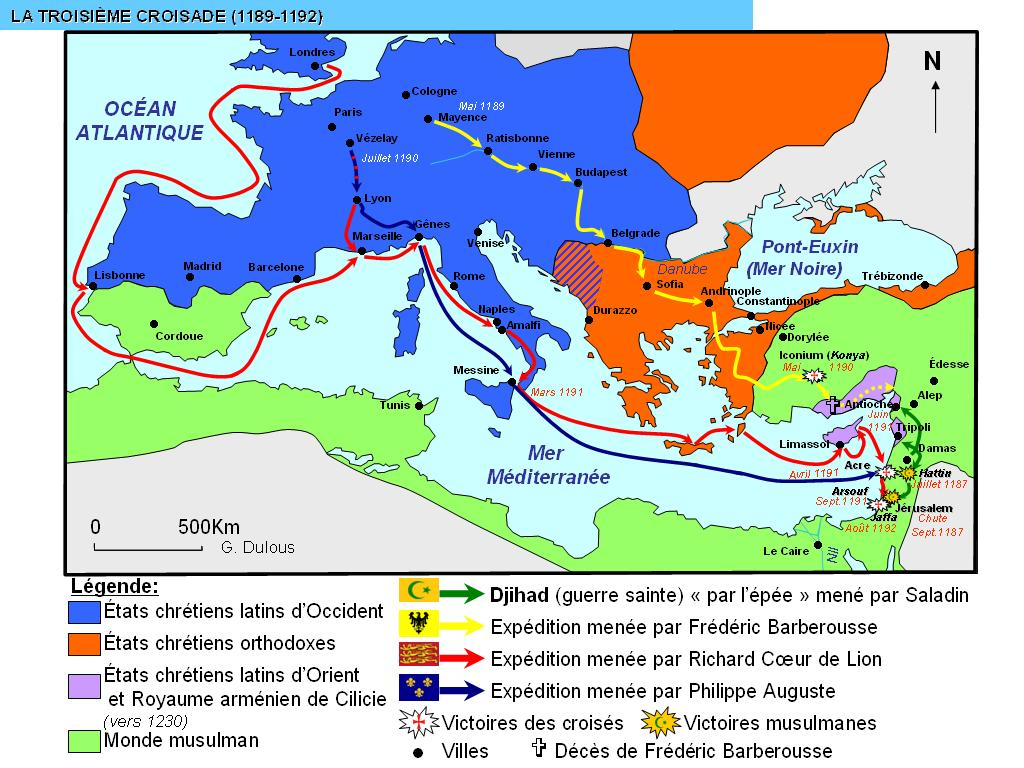 Third crusade